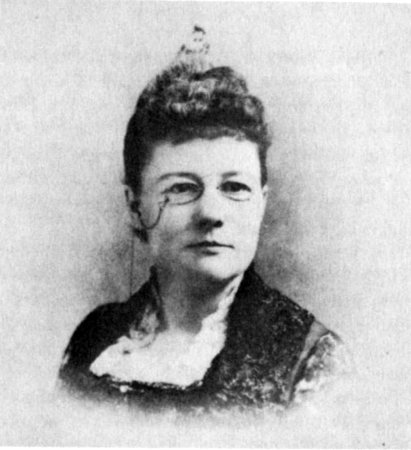 Ida Husted Harper